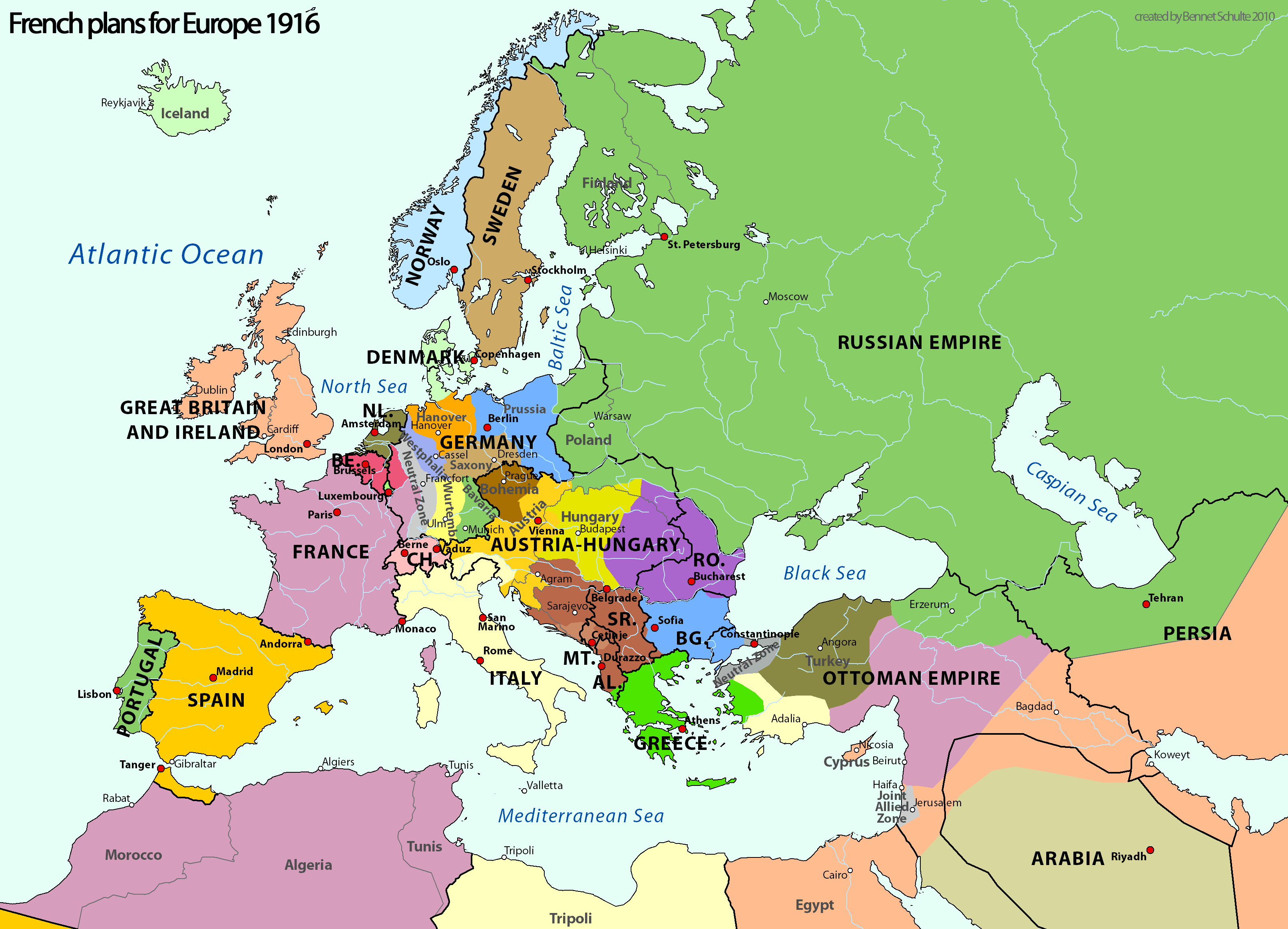 Part of a map series on the French plans for Europe after a victory over the Central Powers in the first World War.